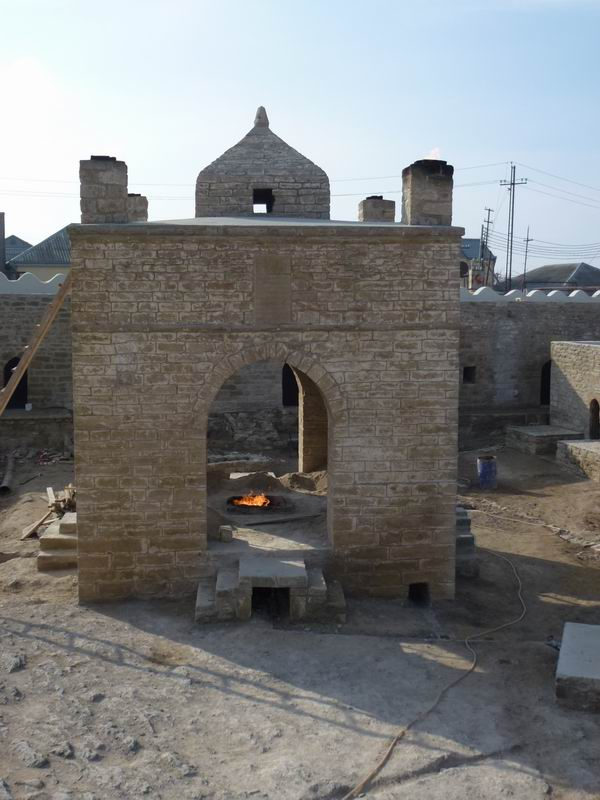 Fire Temple Ateshgah